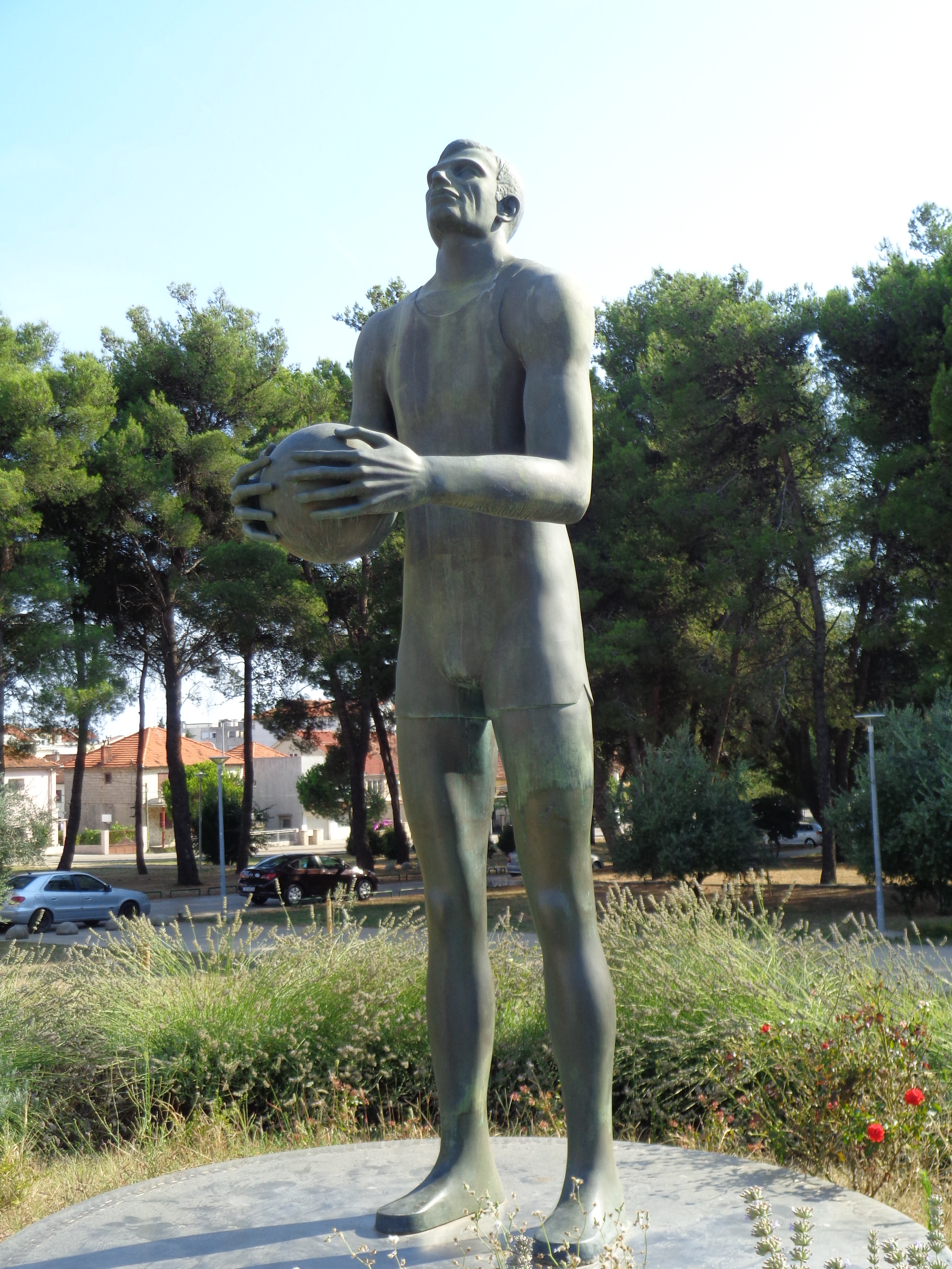 Statue of Krešimir Ćosić, Croatian basketball player, at Višnjik Sports Centre, Zadar, Croatia - north view